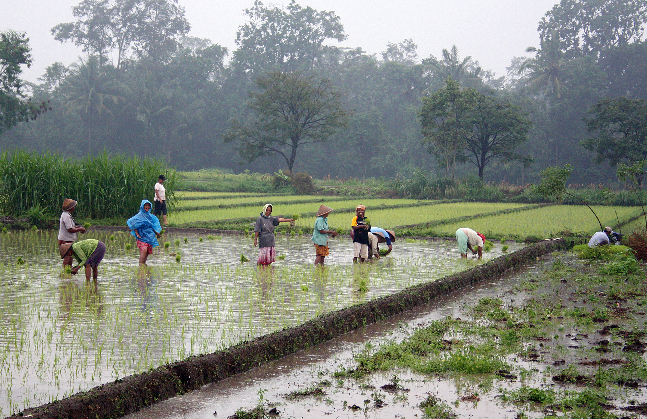 Javanese women performing manual labor during rice plantation near Prambanan, Yogyakarta, Indonesia.